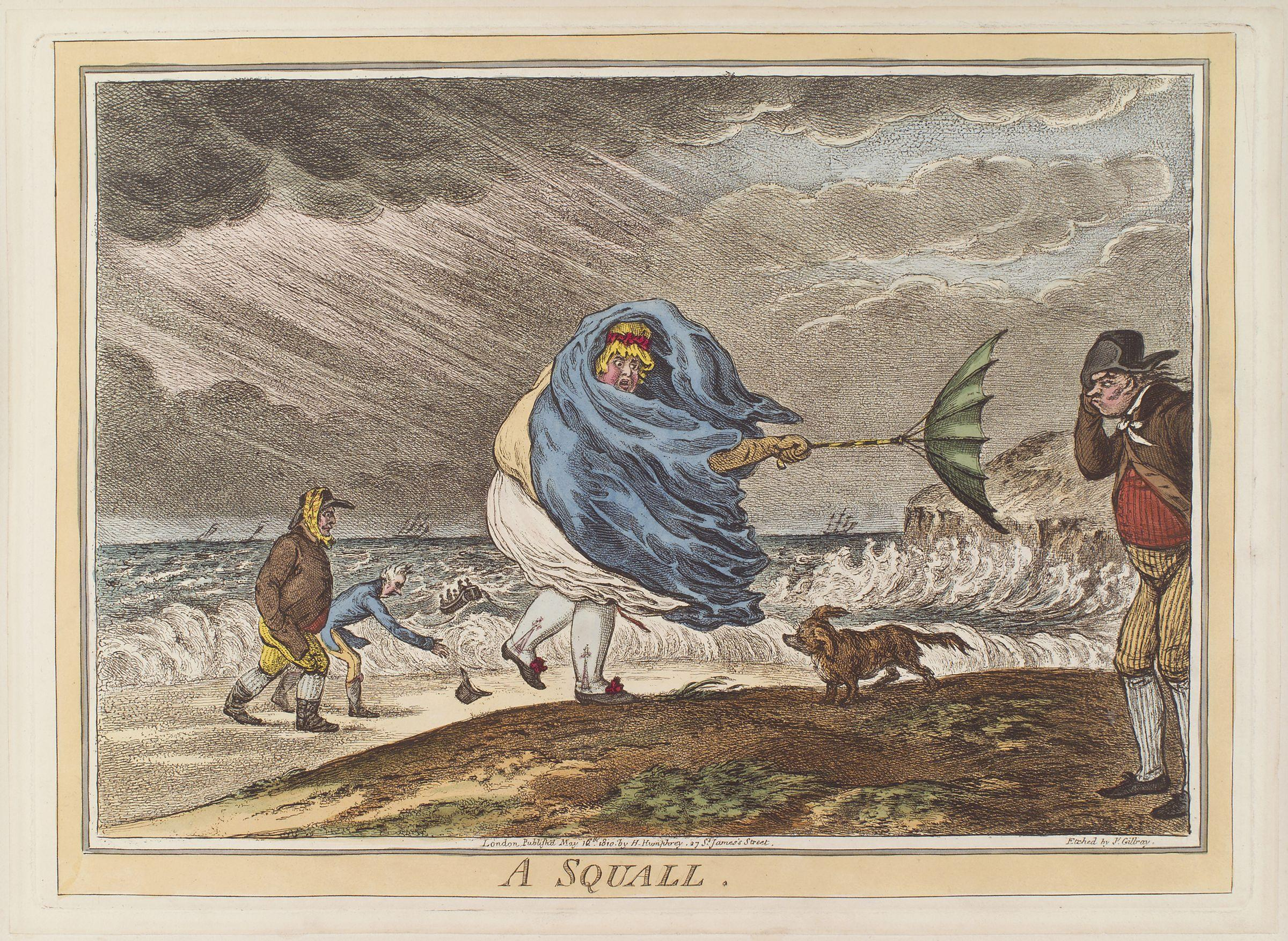 A squall, by James Gillray (died 1815), published 1810. All images in this batch have been confirmed as author died before 1939 according to the official death date listed by the NPG.